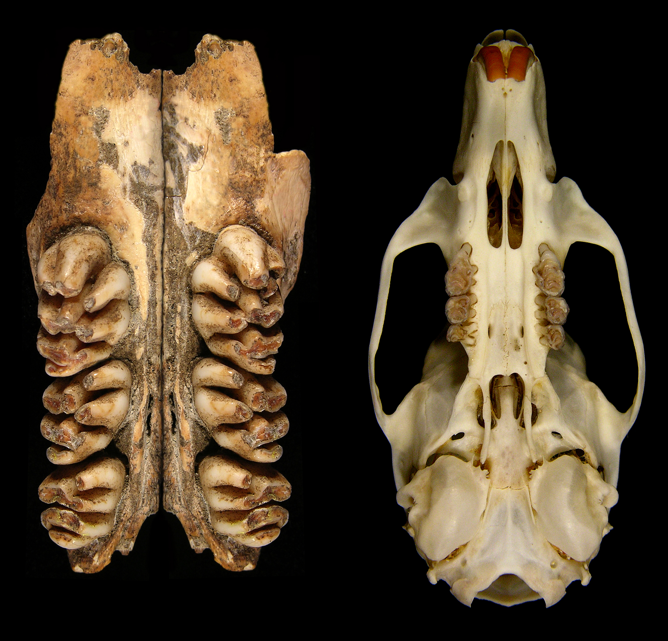 Upper toothrows of Timor's extinct giant rat (left), the biggest rat that ever lived, compared with the skull of a black rat (right). Archaeological research in East Timor in 2010 unearthed the bones of the biggest rat that ever lived, with a body weight around 6 kg. The cave excavations also yielded a total of 13 species of rodents, 11 of which are new to science. Eight of the rats weighed a kilogram or more. Carbon dating shows that the biggest rat that ever lived survived until around 1000 to 2000 years ago, along with most of the other Timorese rodents found during the excavation. Only one of the smaller species found is known to survive on Timor today.